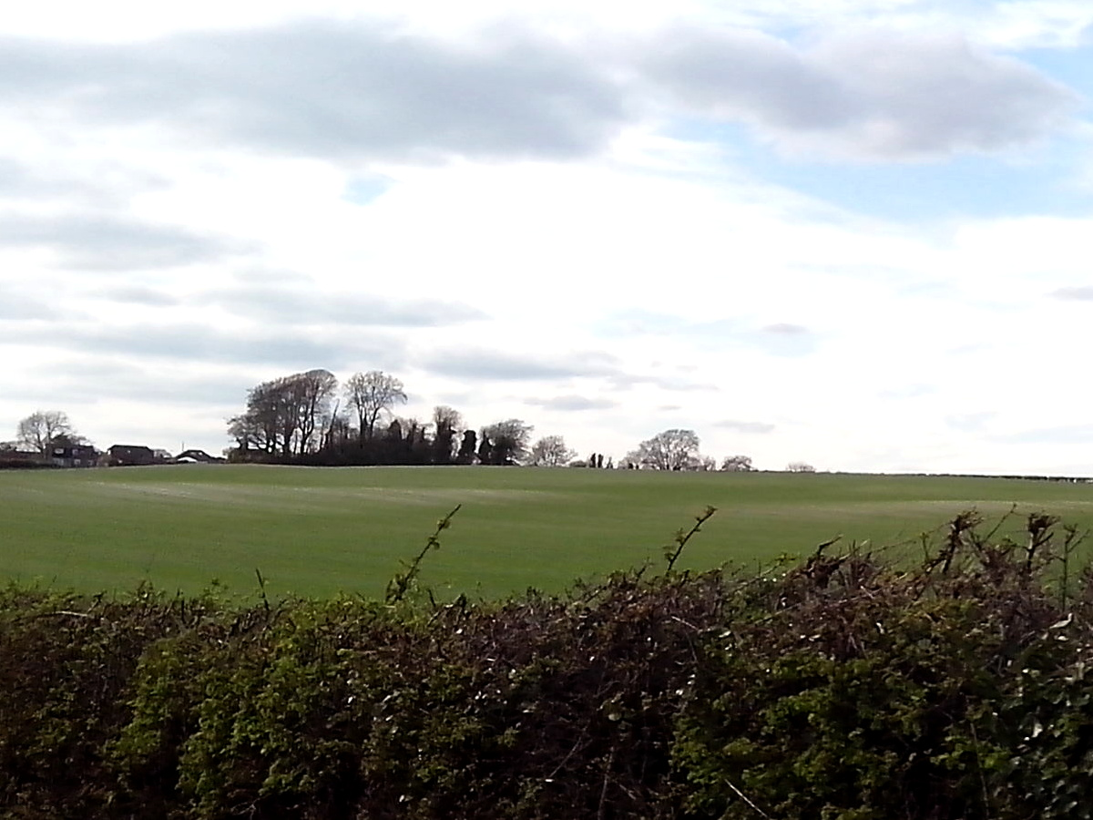 Mount Pleasant Henge, just outside of Dorchester, Dorset. A heavily-eroded Neolithic henge visible as a white crop-mark in this spring photograph. A Bronze-Age barrow (known as Conquer Barrow) on the western edge of the henge can be seen in the background.